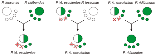 Typical hybridization (and hybridogenesis) between Pool Frog (Pelophylax lessonae), Marsh Frog (Pelophylax ridibundus) and Edible Frog (Pelophylax kl. esculentus, P. lessonae × P. ridibundus) in the native LE (lessonae-esculentus) hybridogenetic population system invaded additionally by P. ridibundus.